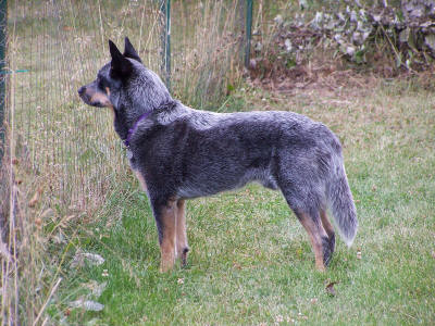 Australian Cattle Dog, Blue Heeler, Bluey, Heeler, Cattledog, Cowdog, blue dog, ACD, aucado purebred, AKC